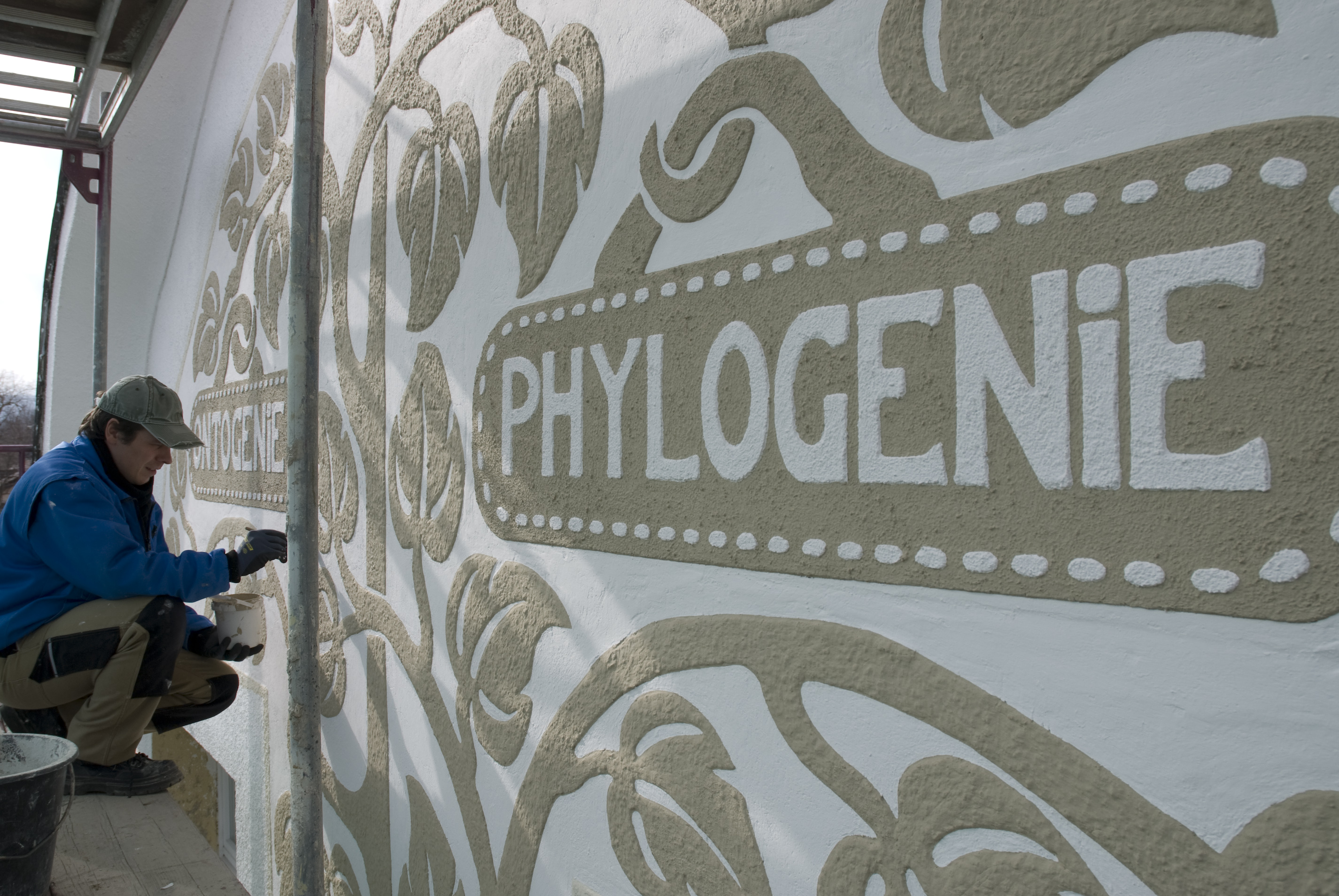 Phyletisches Museum major ornament